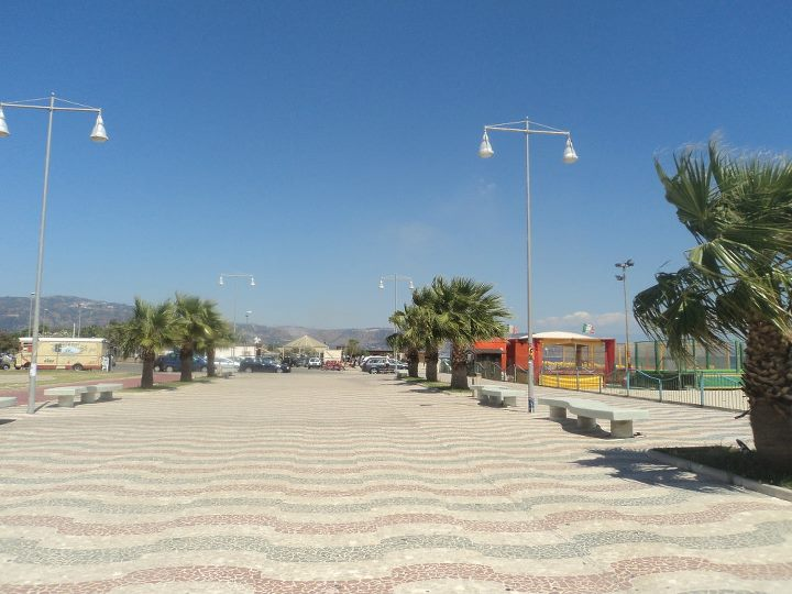 Seafront of Soverato. For more pictures